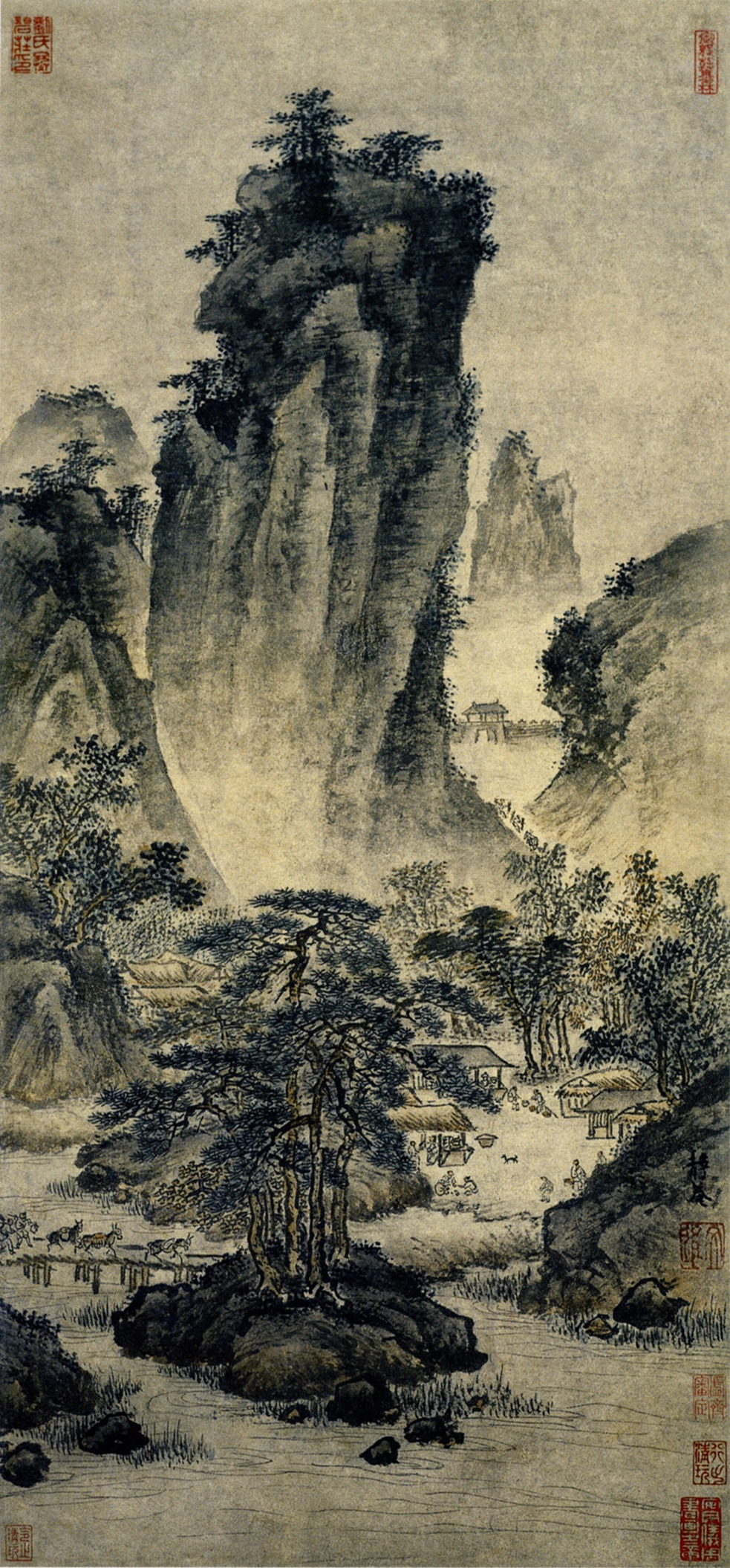 Traveling Through Gates and Passes, hanging scroll, color on paper, 61.8 x 29.7 cm. Located at the Palace Museum.